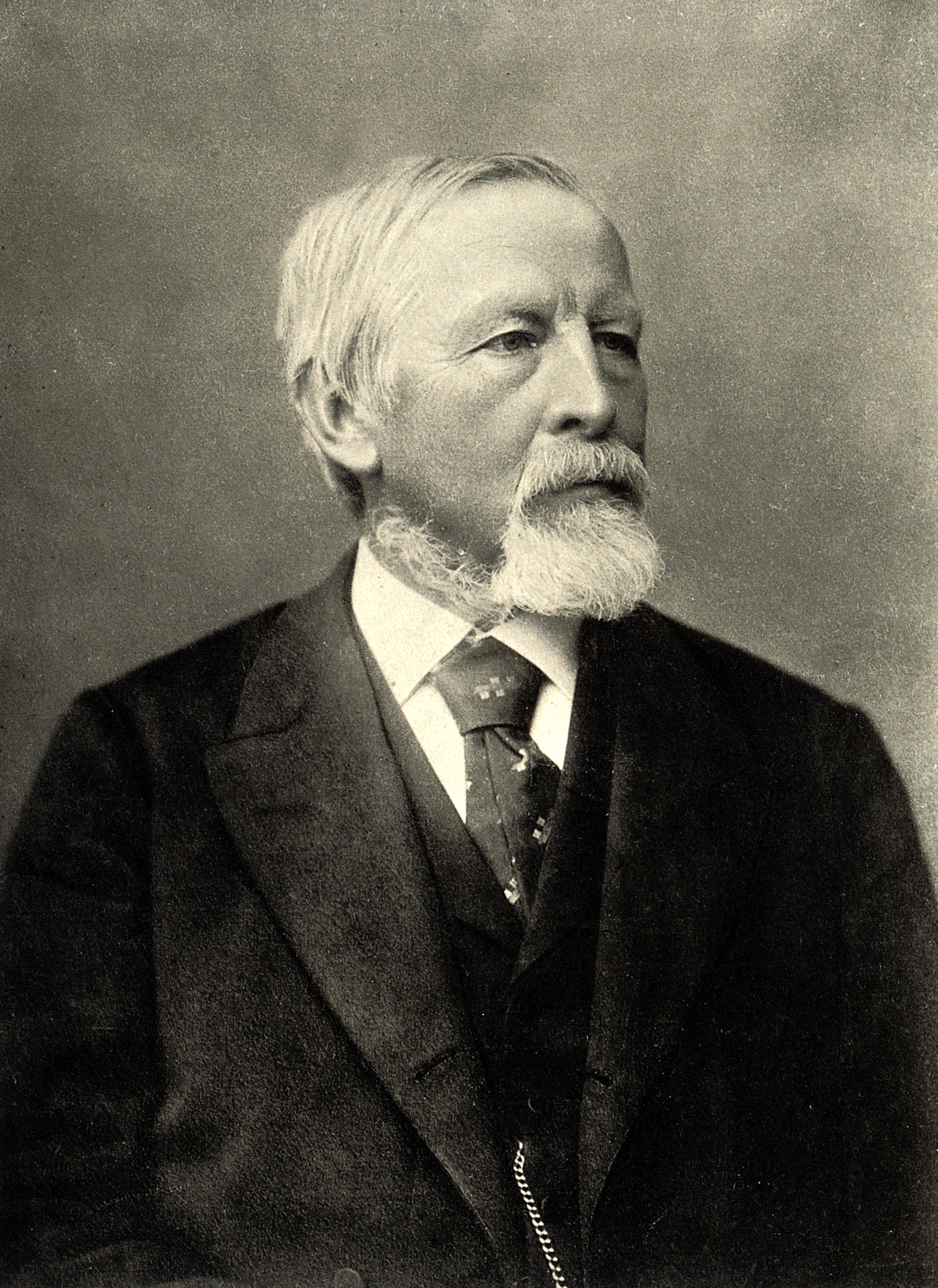 Adolf Kussmaul. Photogravure. Iconographic Collections Keywords: portrait prints